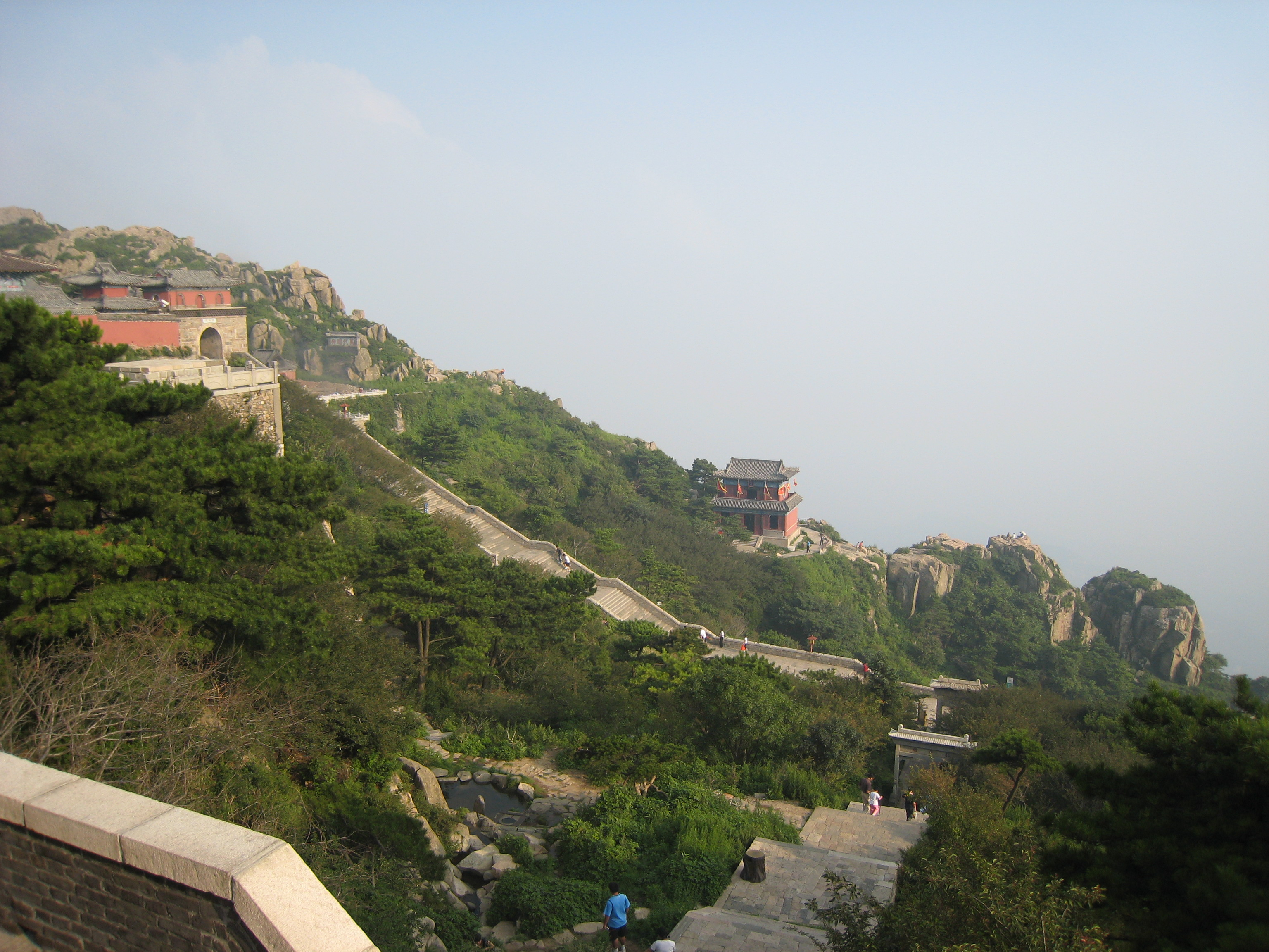 Taishan, Shandong